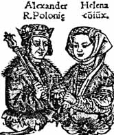 King Alexander I of Poland with his wife Helena of Moscow, daughter of Ivan III of Russia and Sophia Paleologue.